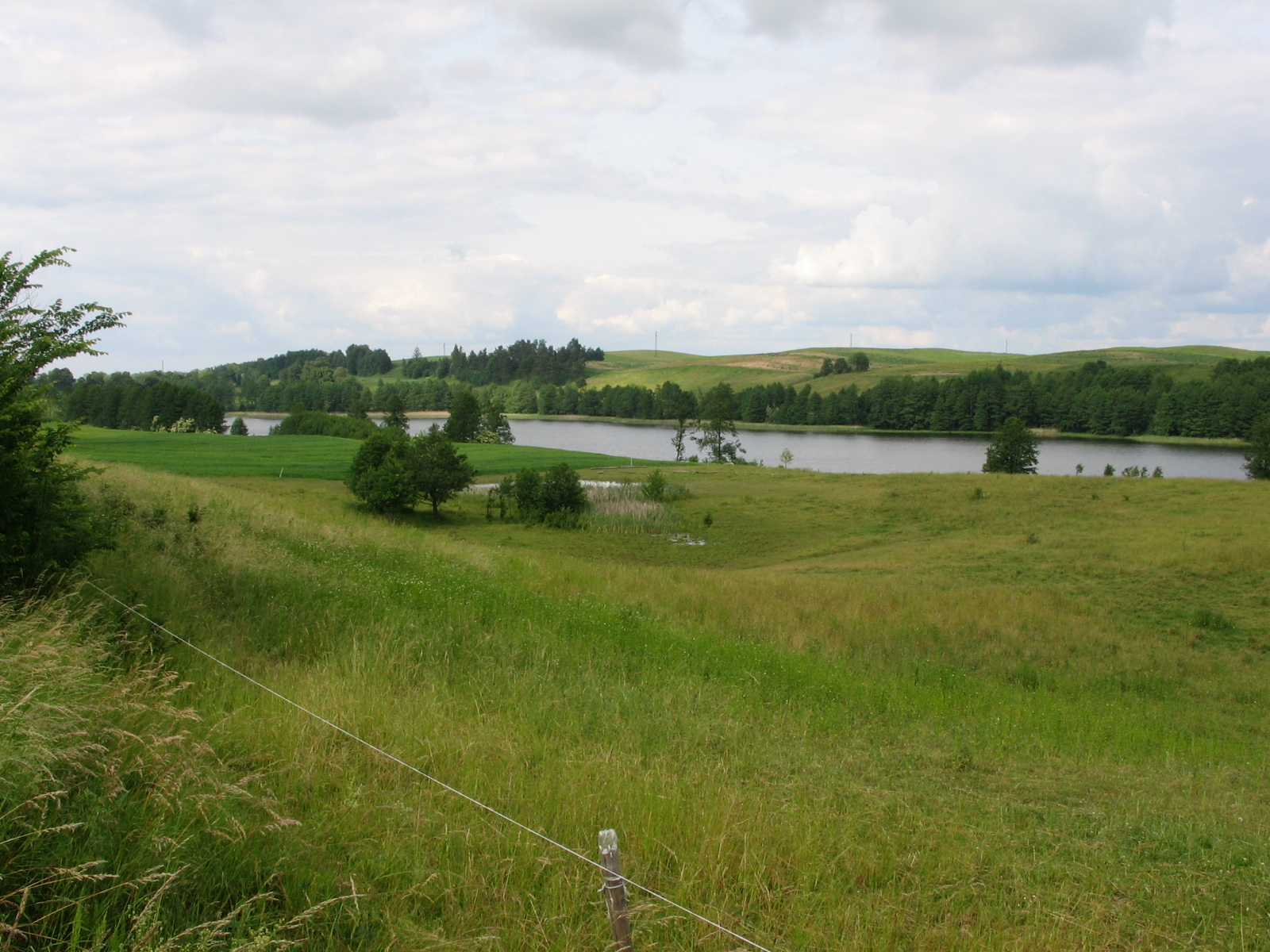 Buwełno lake